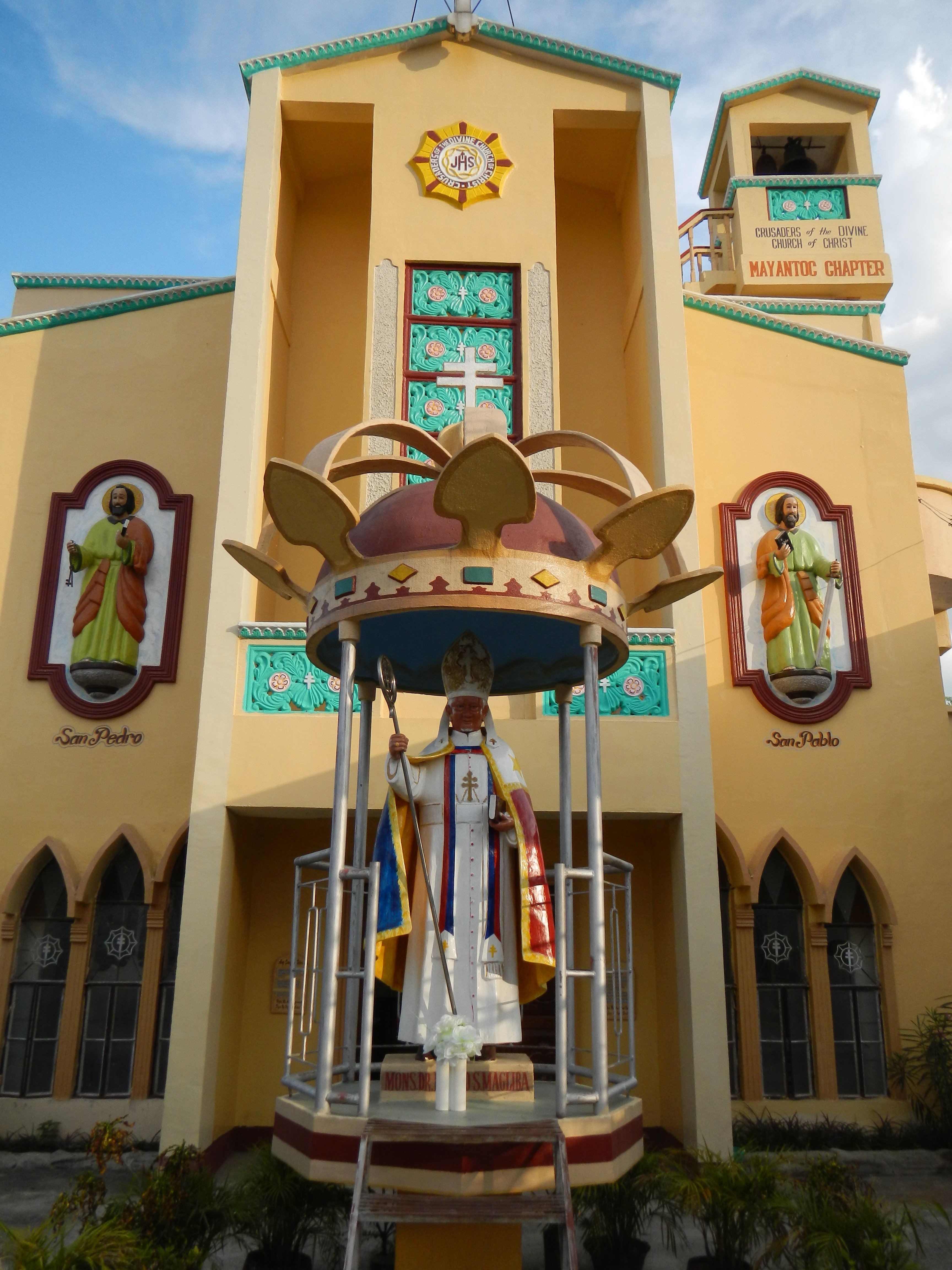 Mayantoc, Tarlac[1] Area: 311.42 km² ZIP Code: 2304[2]Coordinates: 15°34'22"N 120°18'8"E[3] [4]Mayantoc, a mountainous grandeur that slopes gently to the east with its isolated pocket hills and rolls ruggedly on its terrain to the west---has an average humidity of 70.08 degrees Celsius--- that is relatively cool compared to other towns in the province of Tarlac, completing the atmosphere-like feel of Baguio City with its tall pine trees lining the side of the road beside the archway leading to the town’s center...2012[5]MAYANTOC: HALLOW GROUND OF NATURAL CALM AND SERENDIPITY --- The first settlers of Mayantoc before the coming of the Christian migrants were the Negritos of the Abelling tribe. As the former arrived in great number, the natives were soon forced to move deeper into the forest areas of Zambales Mountain Range. The Christian settlers, mostly from Ilocos region (notably the towns of Cabugao, Tagudin, Sarrat, Paoay, Sinait and Bacarra), settled in the villages in the southern portion of a then Christian town Camiling, now acknowledged as the mother town ofMayanatoc. The place was then a forested area where enormous rattan palms are found. In 1899, Mayantoc was created as a barrio of Camiling and was inaugurated into a town on January 1, 1917 with Don Francisco Santos y Pascual, the founder of the town, as its first Municipal President. In this historical town, General Francisco Macabulos established his military hide out during the revolutionary government. Mayantoc is a serene hamlet whose hallow ground is a picturesque of natural calm and serendipity. Geographically landscaped with graceful hills and mountains, its falls and streams are breathtakingly gasping and awesome. Aptly, Mayantoc is called as the Summer Capital of Tarlac. --- Crusaders of the Divine Church of Christ Philippines, Inc., Mayantoc Chapter, Poblacion Sur, Mayantoc, Tarlac, Msgr. Dr. Rufino S. Magliba.